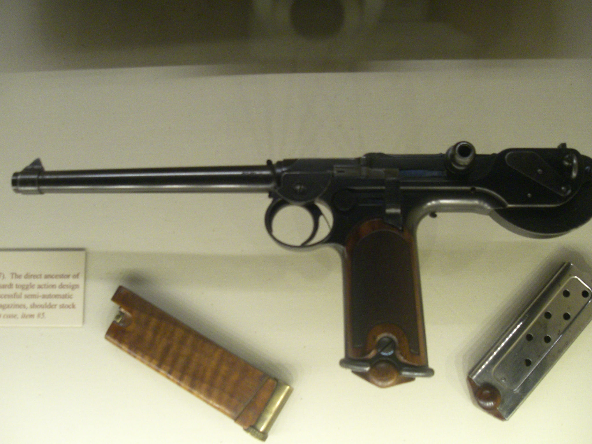 A Borchardt C-93 pistol with magazine (right) and unknown accessory at the National Firearms Museum